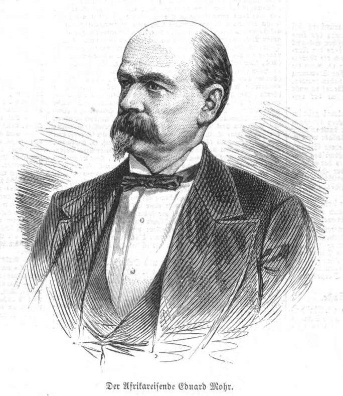 portrait of Eduard Mohr